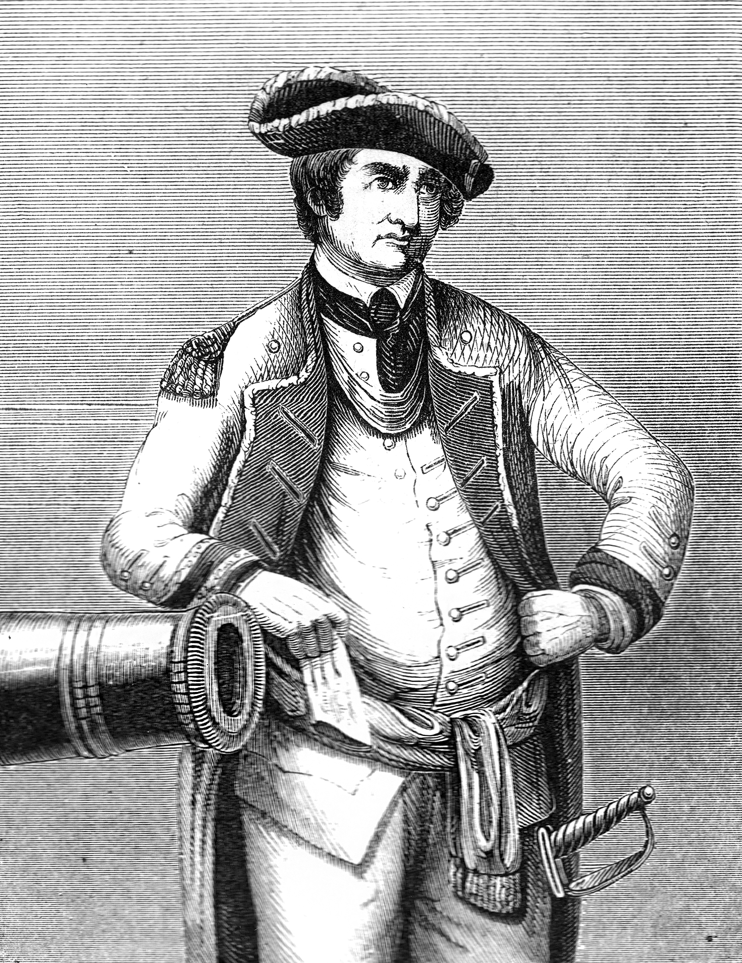 Maj. Israel Putnam in British Uniform 1758